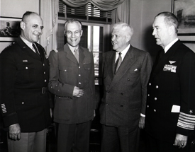 Gen Matthew Ridgway, Gen Paul Ely, Secretary of Defense Charles Wilson and Adm Arthur Radford 22 March 1954